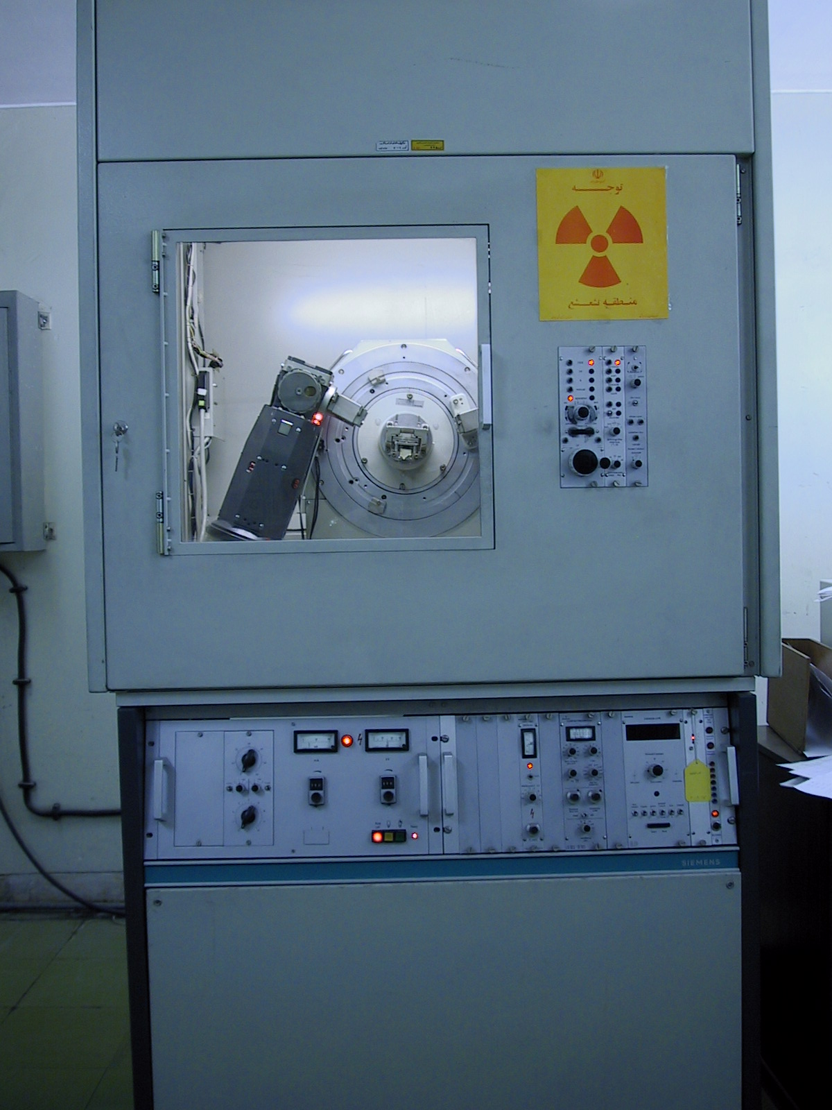 An X-Ray Diffractometer - Materials and Energy Research Center(MERC) - karaj, Iran